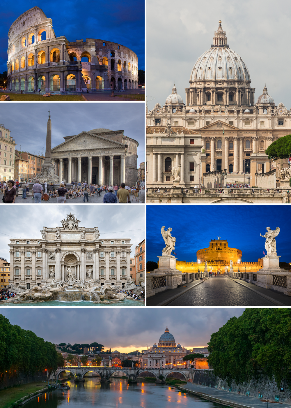 Collage for an article about Rome